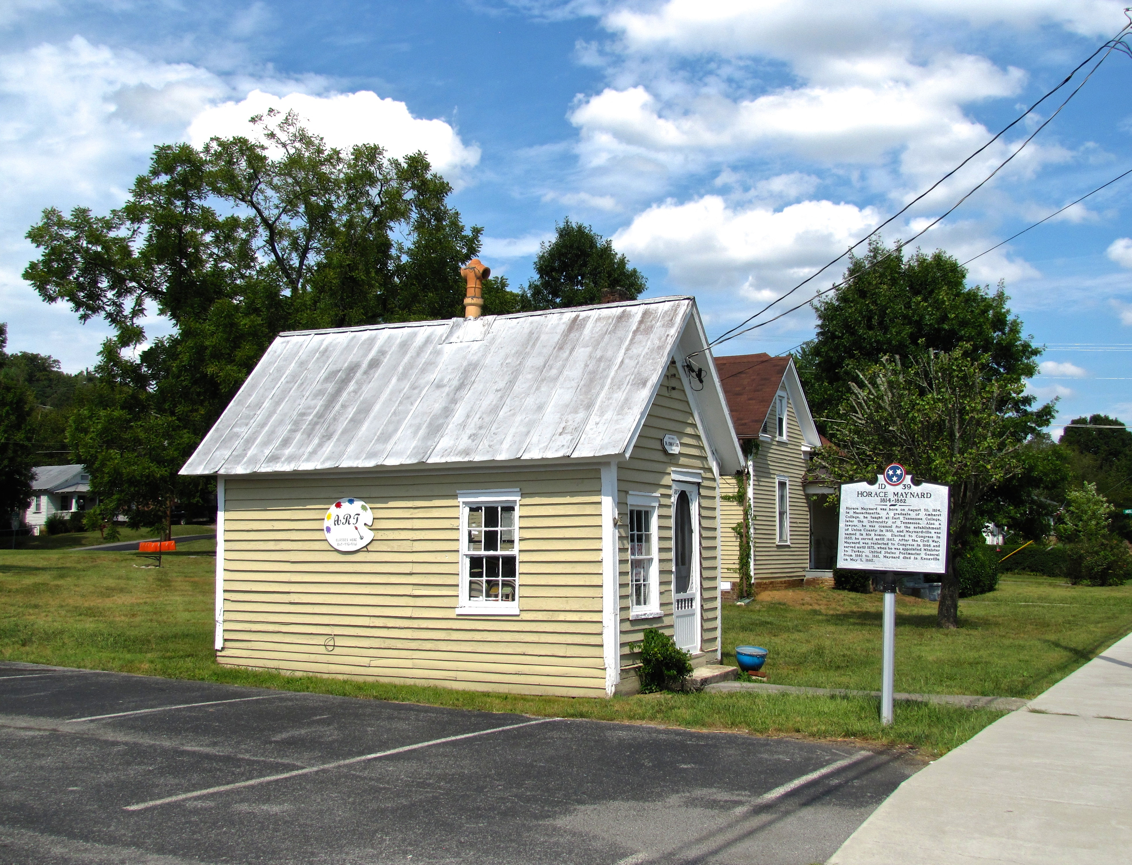 The old office of Dr. John Harvey Carr (1888–1936) in Maynardville, Tennessee, United States.